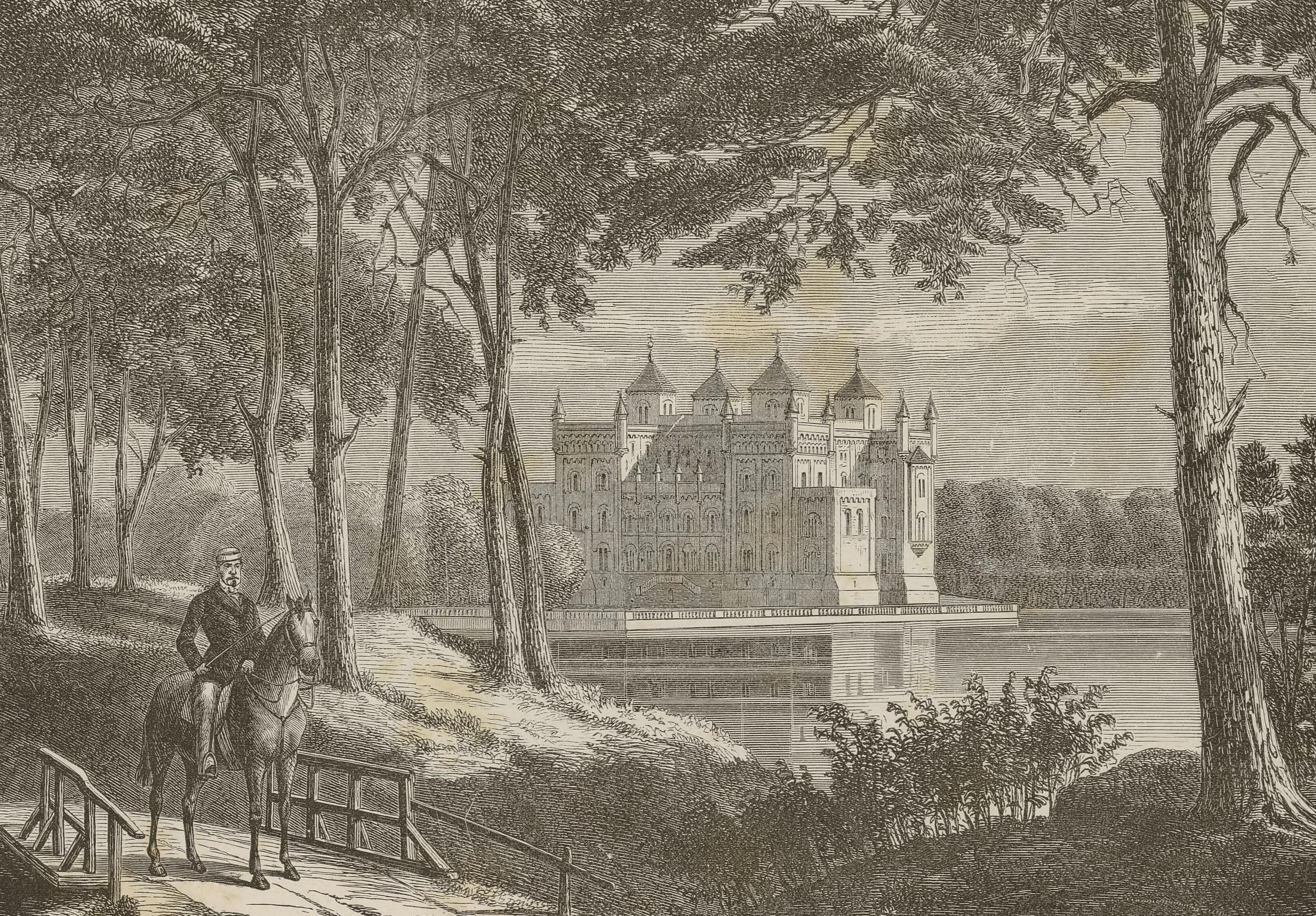 Stora Sundby slott. Illustrasjon hentet fra boken Nordiska taflor av ukjent forfatter og utgitt av Albert Bonnier (se, 1865)